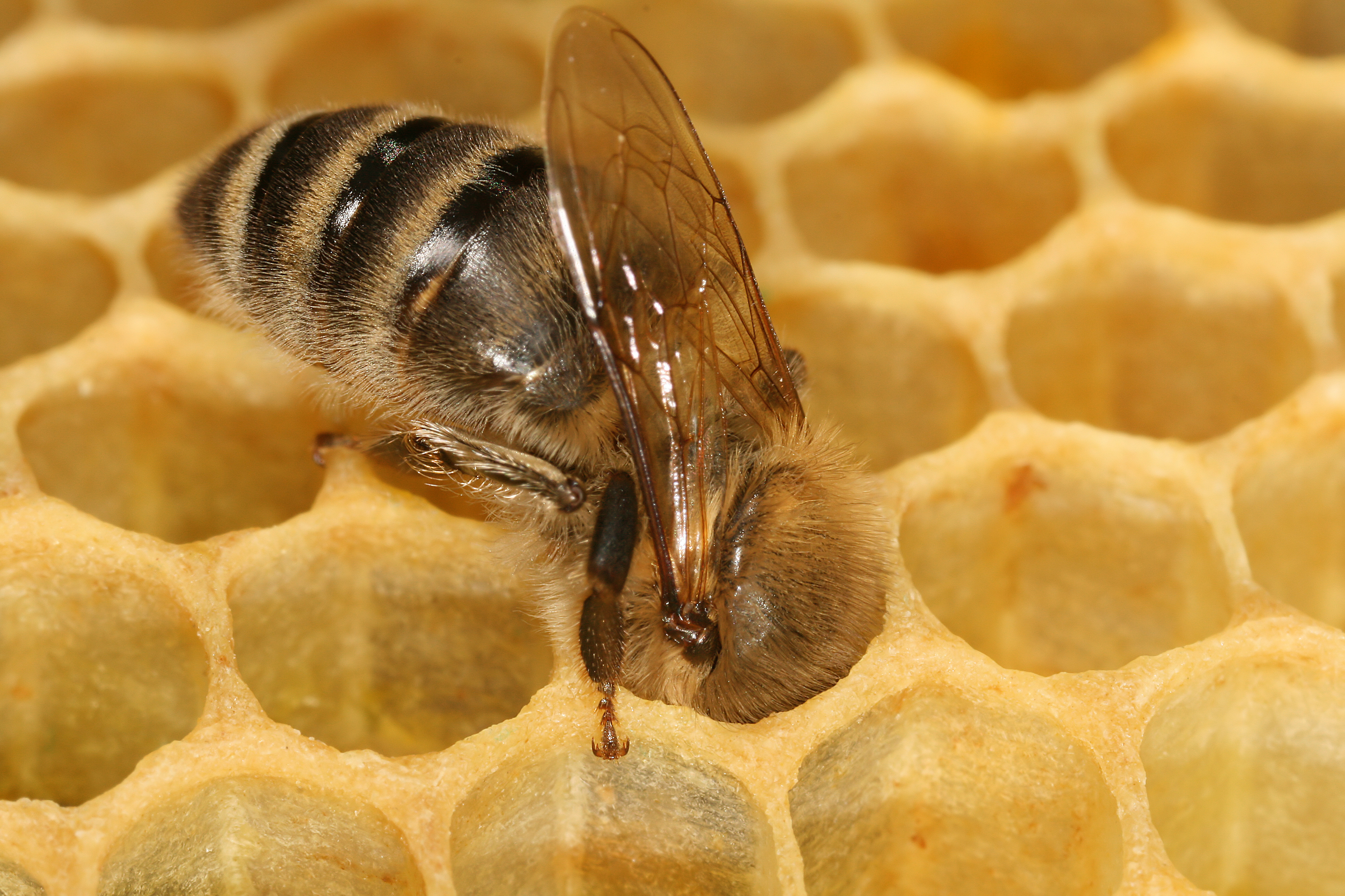 Description: The Carniolan honey bee (Apis mellifera carnica) is a subspecies of Western honey bee. It originates from Slovenia, but can now be found also in Austria, part of Hungary, Romania, Croatia, Bosnia and Herzegovina, and Serbia.